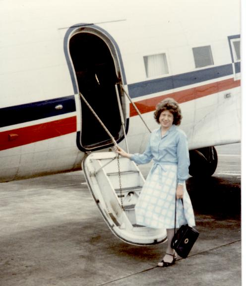 1939-built DC-3 of Provincetown-Boston Airline equipped with right-hand door, in scheduled operation at Miami International in 1987.